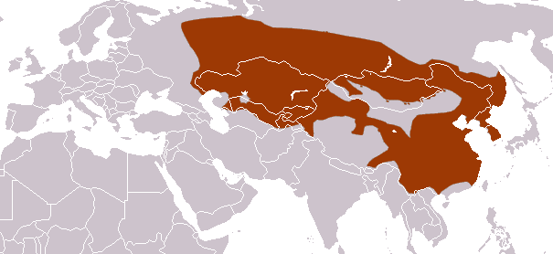 Asian Badger (Meles leucurus) range